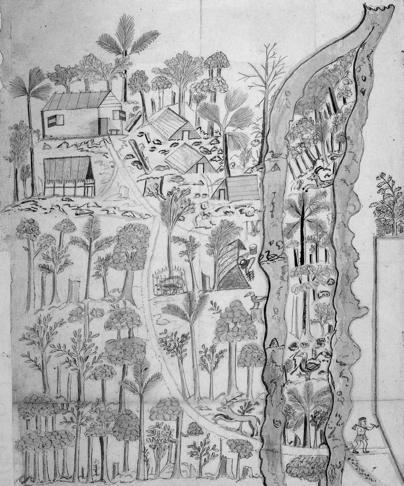 Illustration of "the Farm at Foul Bay", which may depict a Mauritian Shelduck (Alopochen mauritianus) between the streams.